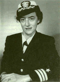 Military portrait of Dr. Florence van Straten